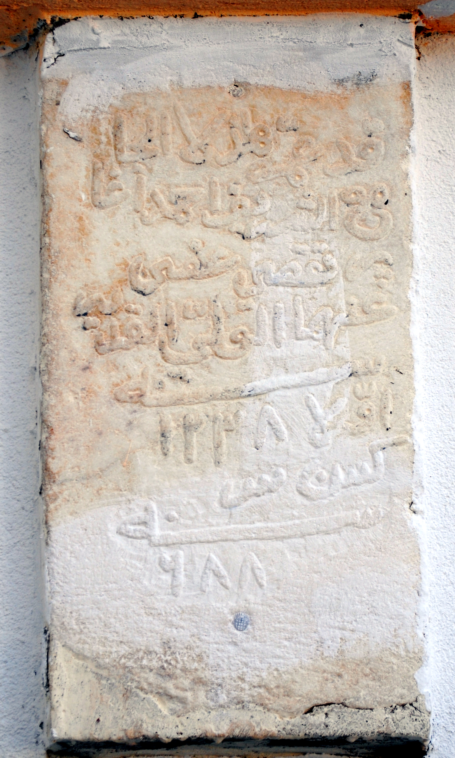 People say that one of the oldest mosques in the Balkans in the village Mlike, Gora region, Kosovo. The mosque was built in 1289th the Gregorian calendar (688th Sefer AH) and reconstructed (expanded) by Ahmet aga 1822nd the Gregorian calendar (1238th AH).